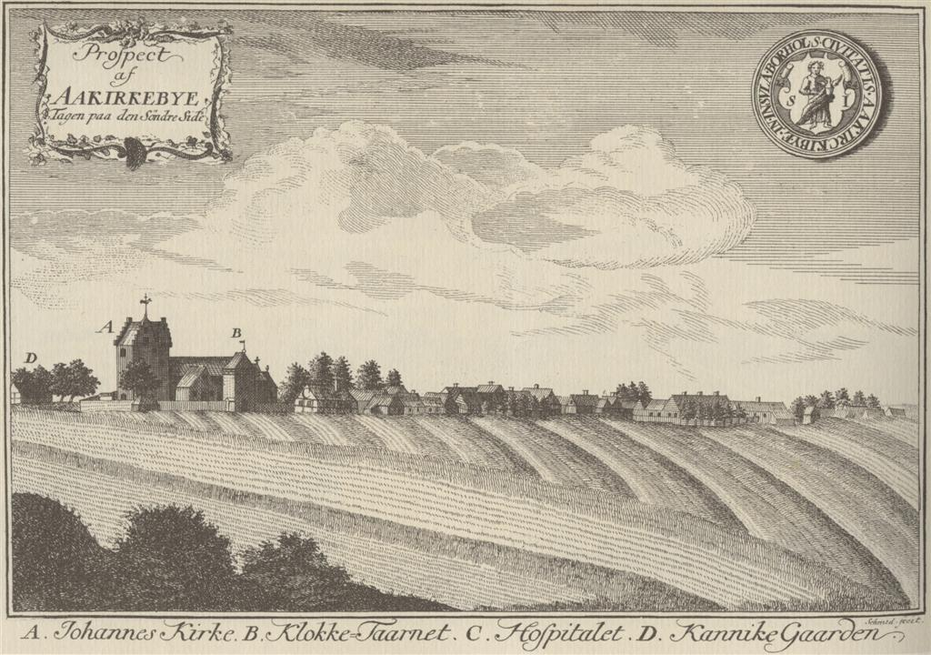 Engraving showing Aakirkeby on Bornholm.